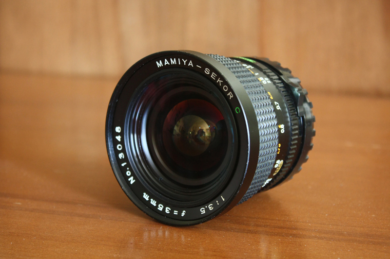 Widest lens in 645 system of Mamiya.